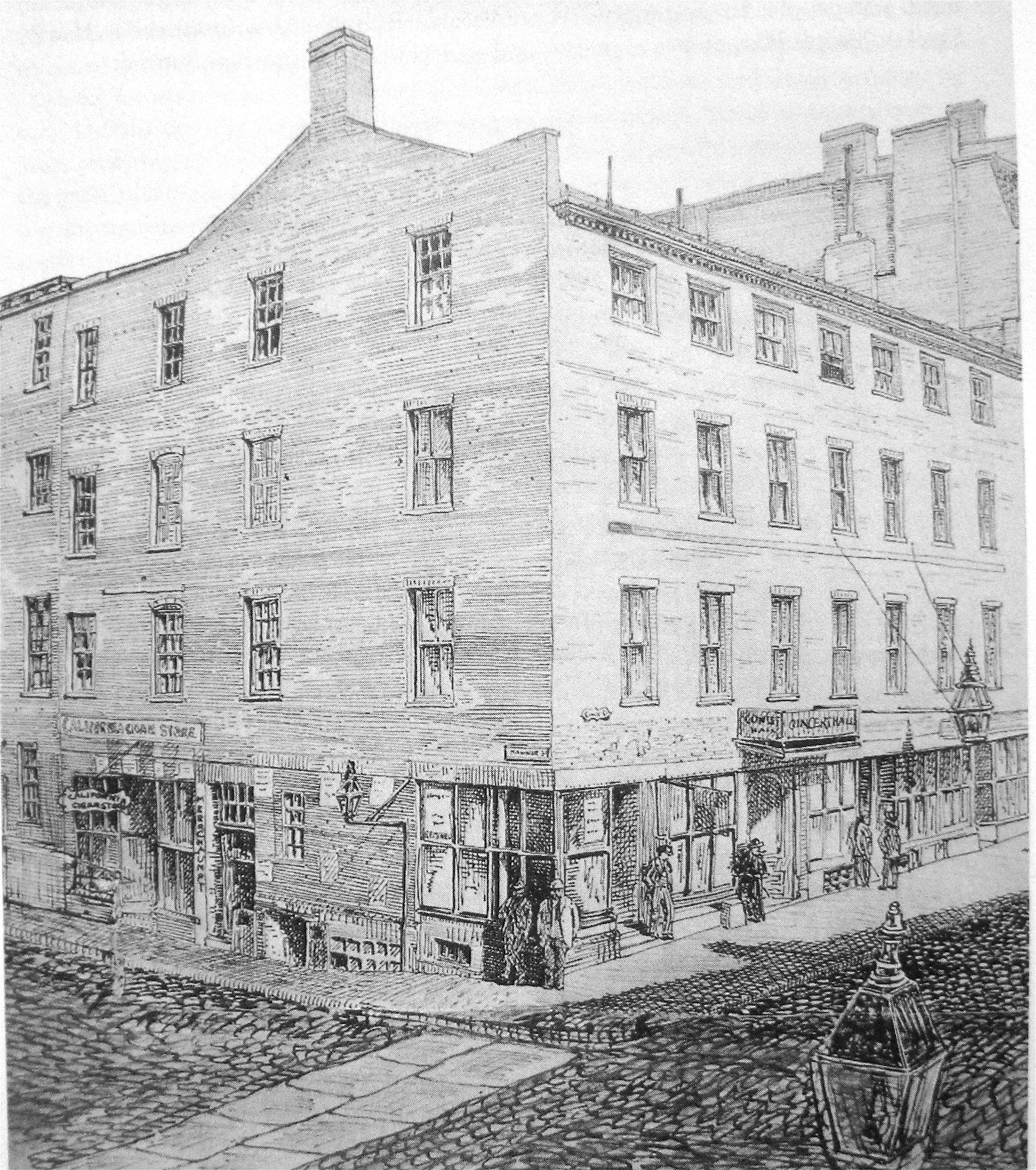 Concert-Hall, Boston 1869 illus.